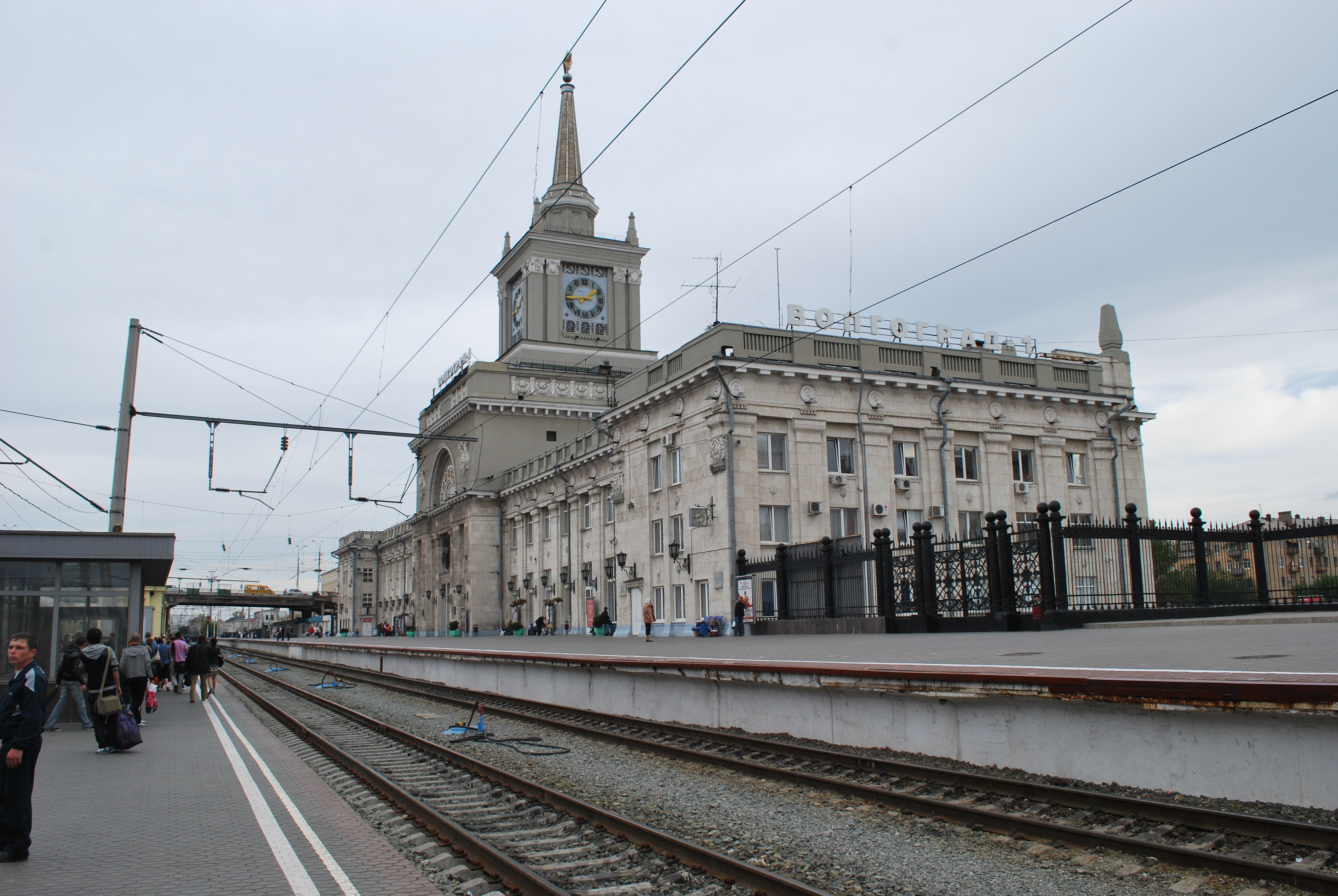 Railway Station Volgograd I